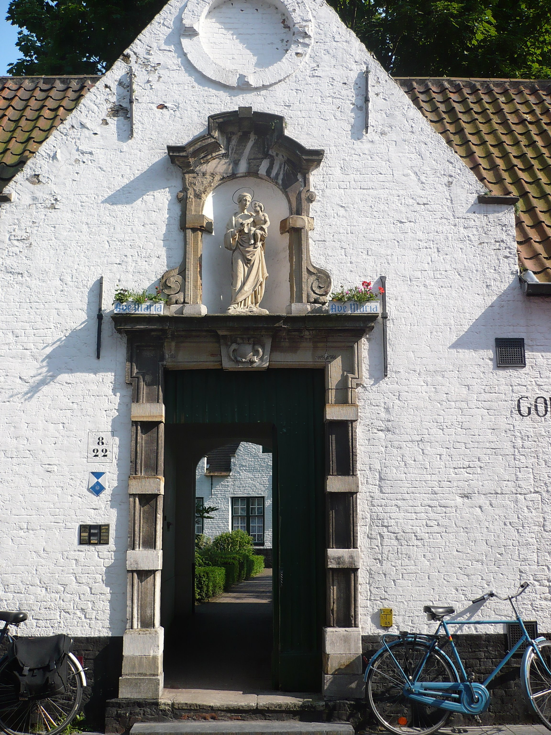 bruges, entrée de la Maison Dieu De Meulenaere